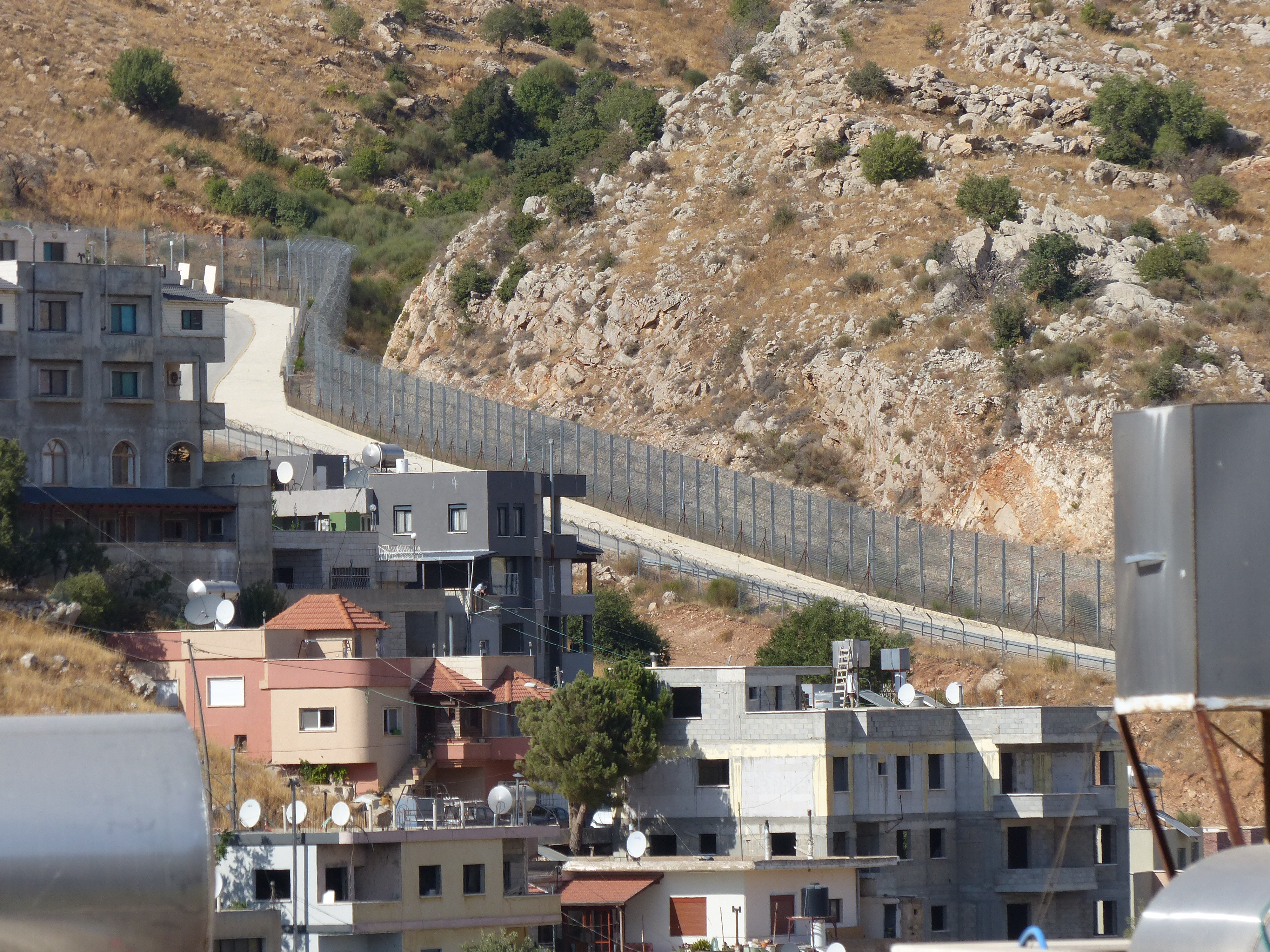 Israel border in Majdal Shams, Golan Heights